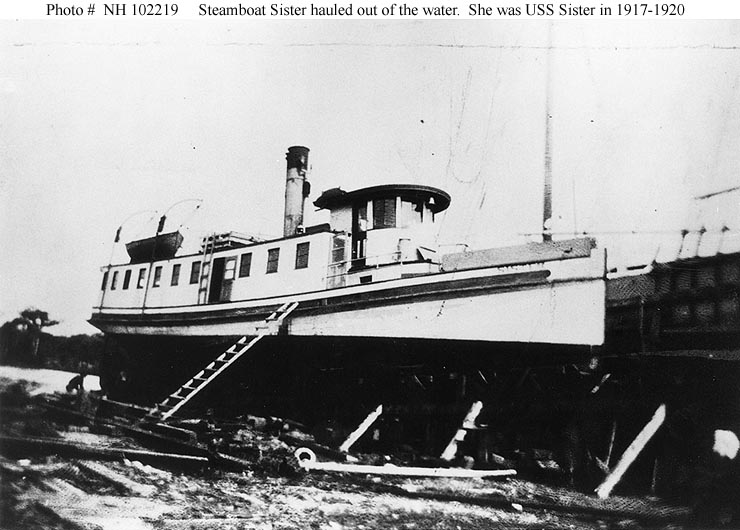 The steamer Sister hauled out of the water sometime prior to her United States Navy service as the tug and freight boat